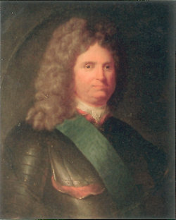 Portrait of François Louis Rousselet de Châteaurenault (1637-1716)